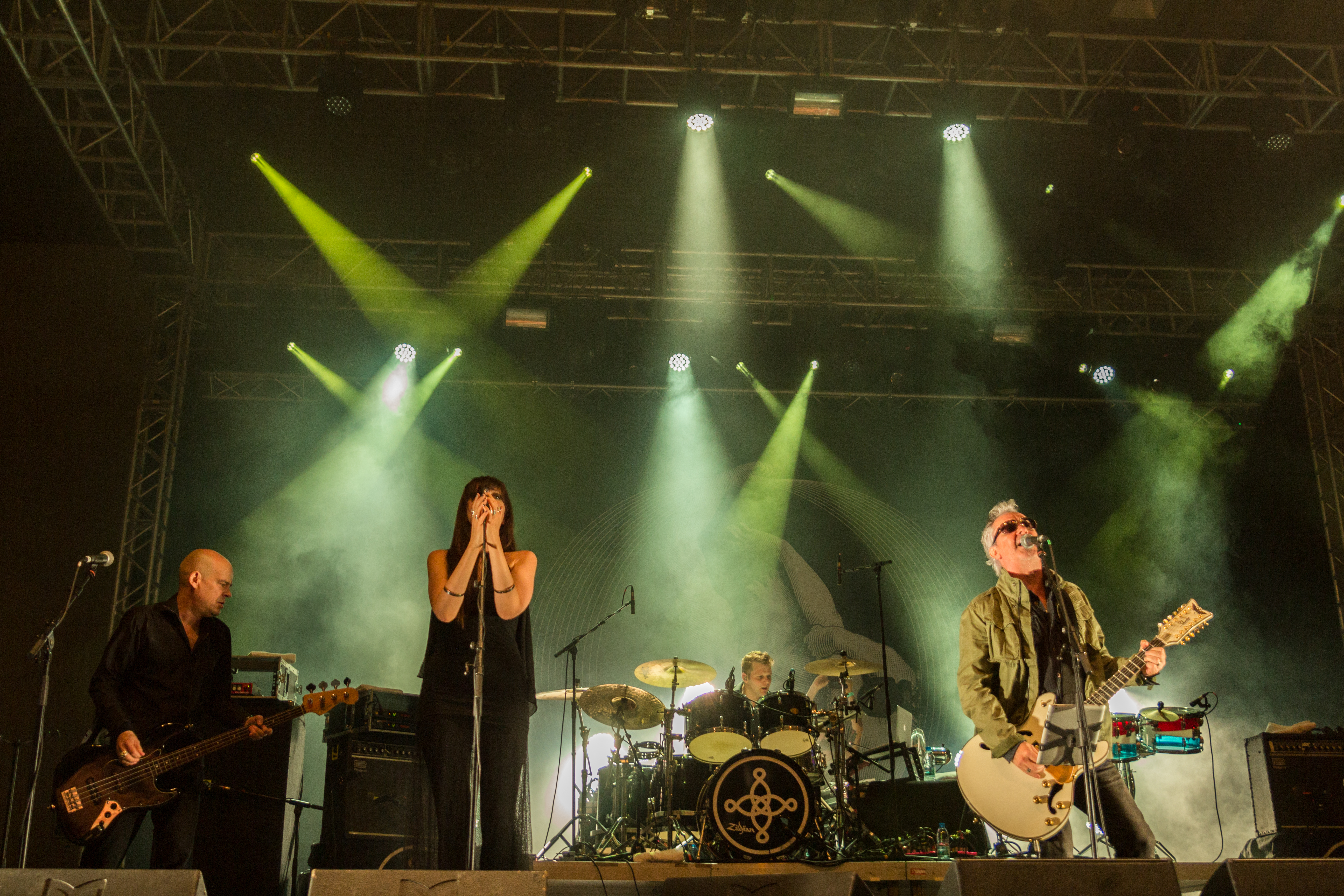 The British gothic rock band The Mission at the Wave-Gotik-Treffen 2017 in Leipzig/Germany (Venue Agra).